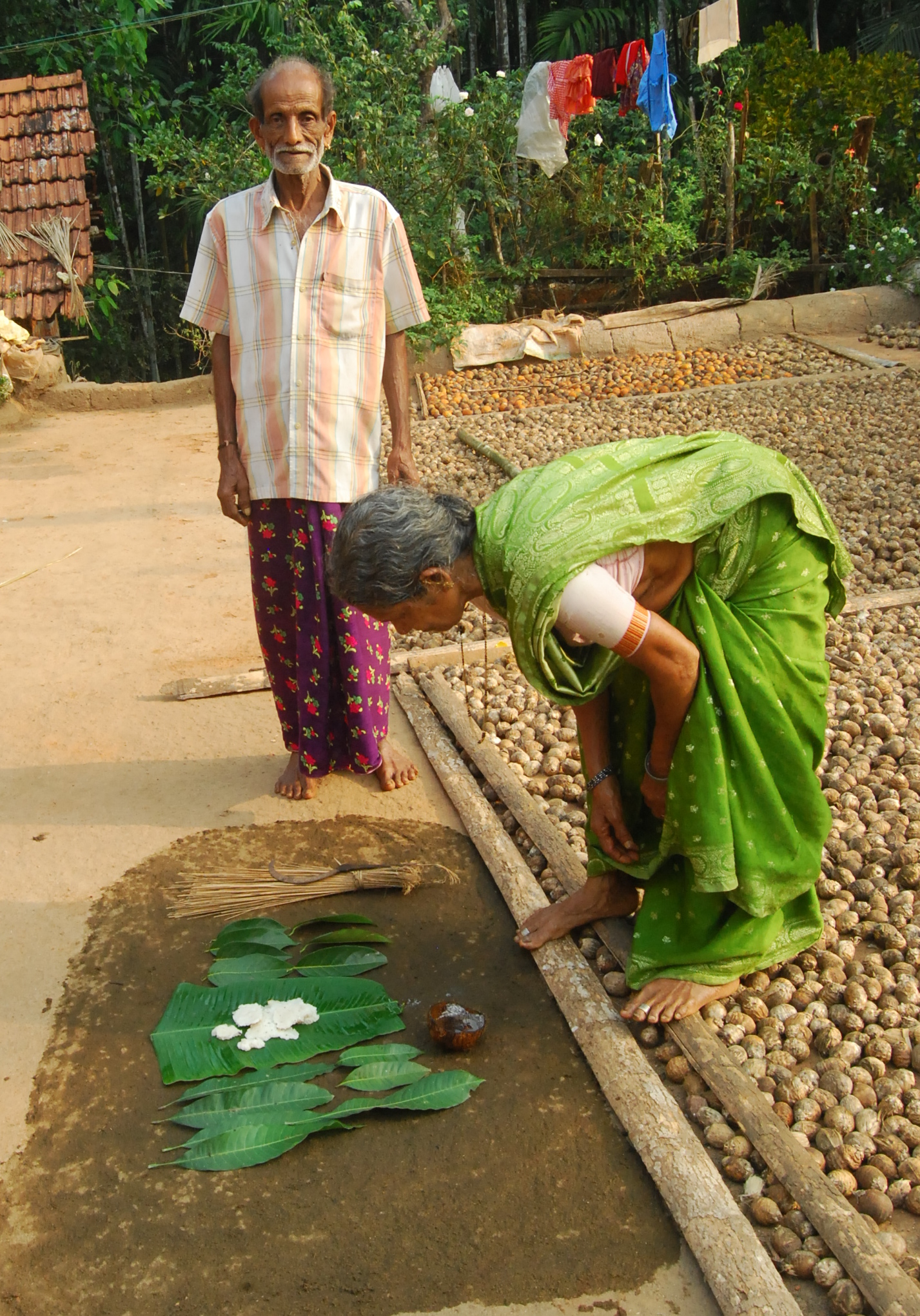 Tuluvas ancestors firmly believed that Earth is a woman, a mother. They conceived that Mother Earth would have an annual transitional period comparable to the menstrual period in women This photo has been taken in the country: India